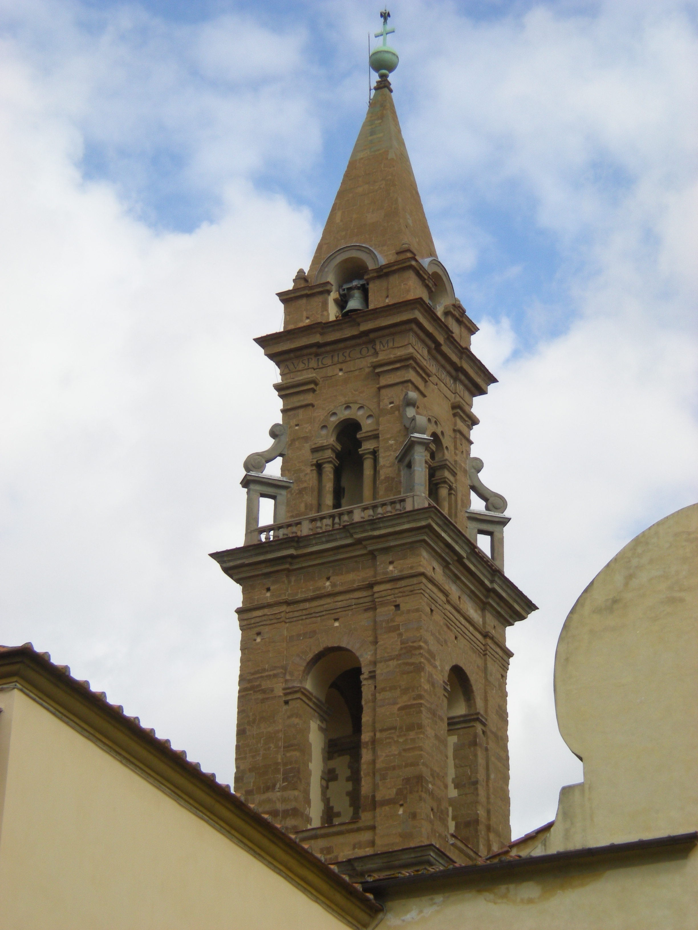 bell tower of Santo Spirito, Florence